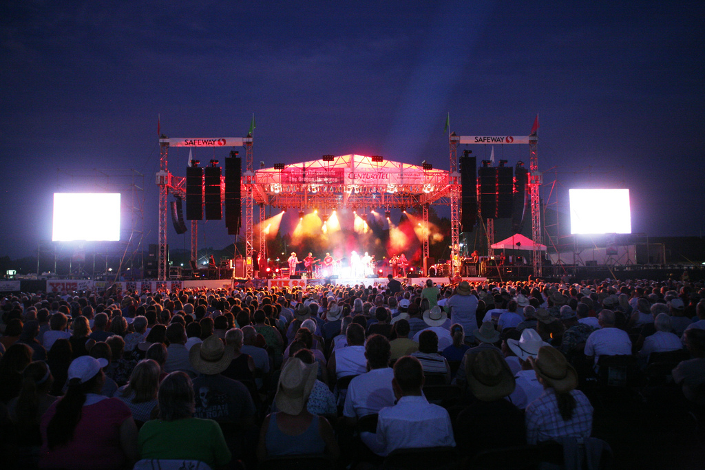 Stage shot from the Oregon Jamboree